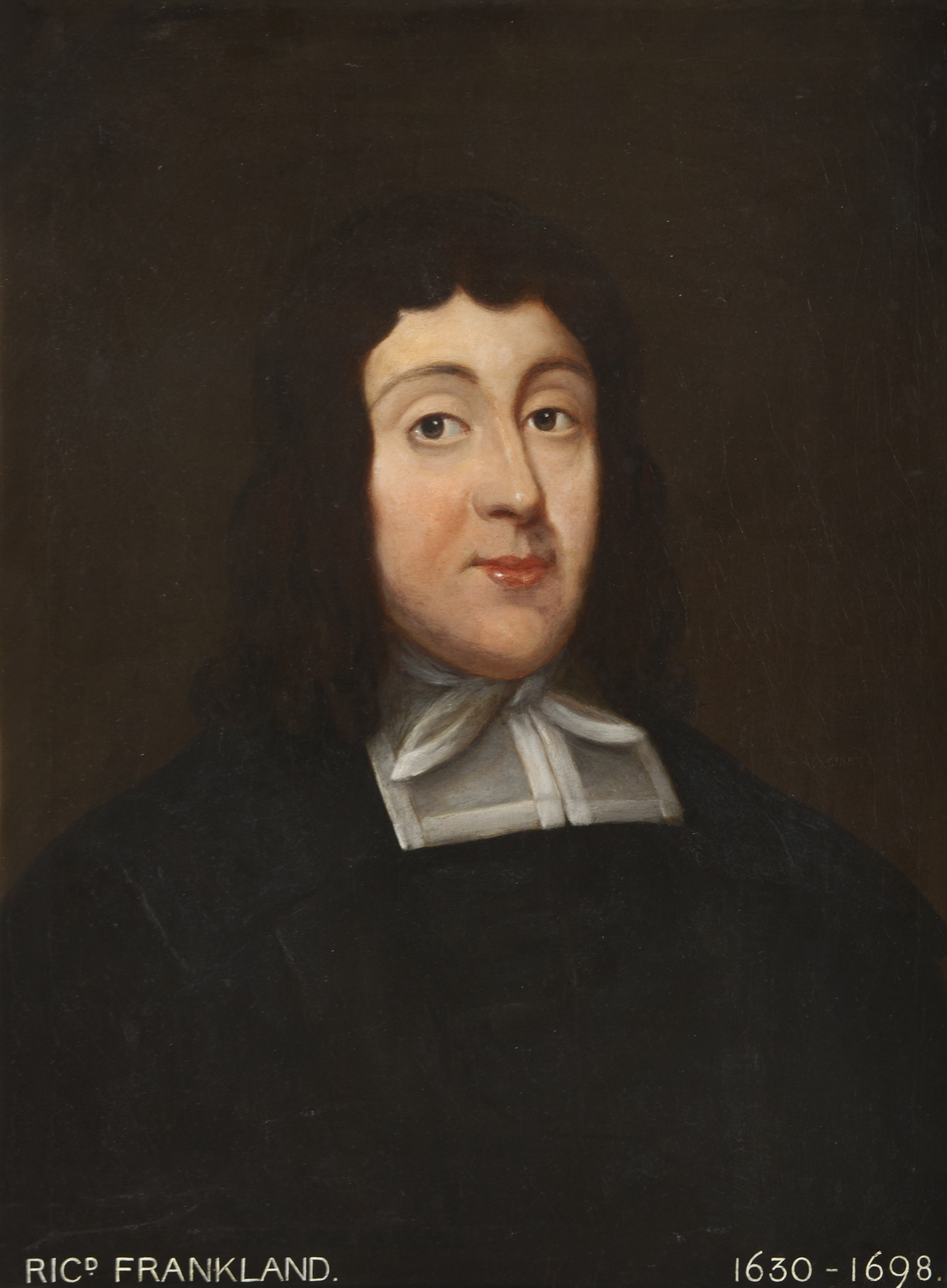 Depicted person: Richard Frankland (tutor)